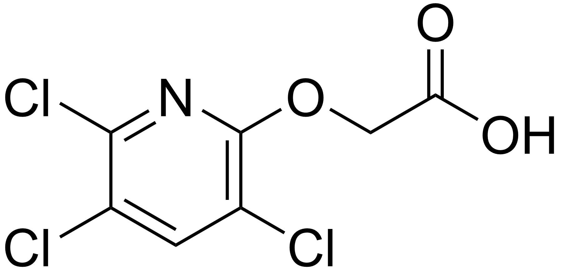 chemical structure of triclopyr